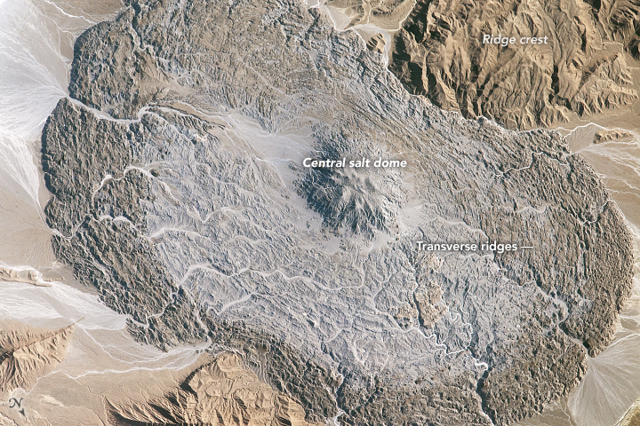 The scale and form of many impressive features on Earth’s surface can only be fully appreciated through an overhead view. The astronauts onboard the International Space Station may enjoy the best overhead view of all. The Zagros Mountains of southeastern Iran are the location of numerous salt domes and salt glaciers, formed as a result of the depositional history and tectonic forces operating in the region. While many of these landscape features are named on maps, the salt glacier in this photograph remains unnamed on global maps and atlases. The vaguely hourglass (or bowtie) shaped morphology of the salt glacier is due to the central location of the salt dome, which formed within the central Zagros ridge crest (top and lower left). Salt extruded from the dome and then flowed downslope into the adjacent valleys. For a sense of scale, the distance across the salt glacier from northwest to southeast is approximately 14 kilometers (8 miles). Much like what happens in flowing ice glaciers, concentric transverse ridges have formed in the salt perpendicular to the flow direction. While bright salt materials are visible in stream beds incising the salt glacier, older surfaces—those farther from the central salt dome—appear dark, most likely due to windblown dust deposition over time or entrainment of sediments in the salt during flow. Astronaut photograph ISS052-E-8401 was acquired on June 24, 2017, with a Nikon D4 digital camera using a, 1150 millimeter lens, and is provided by the ISS Crew Earth Observations Facility and the Earth Science and Remote Sensing Unit, Johnson Space Center.